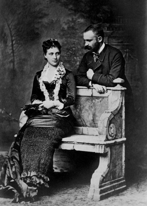 Prince and Princess Tommaso of Savoy, Duke and Duchess of Genoa